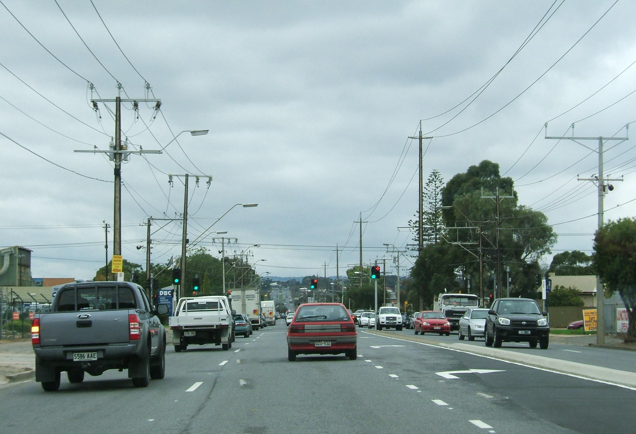 Grand Junction Road passing through Blair Athol, Adelaide.